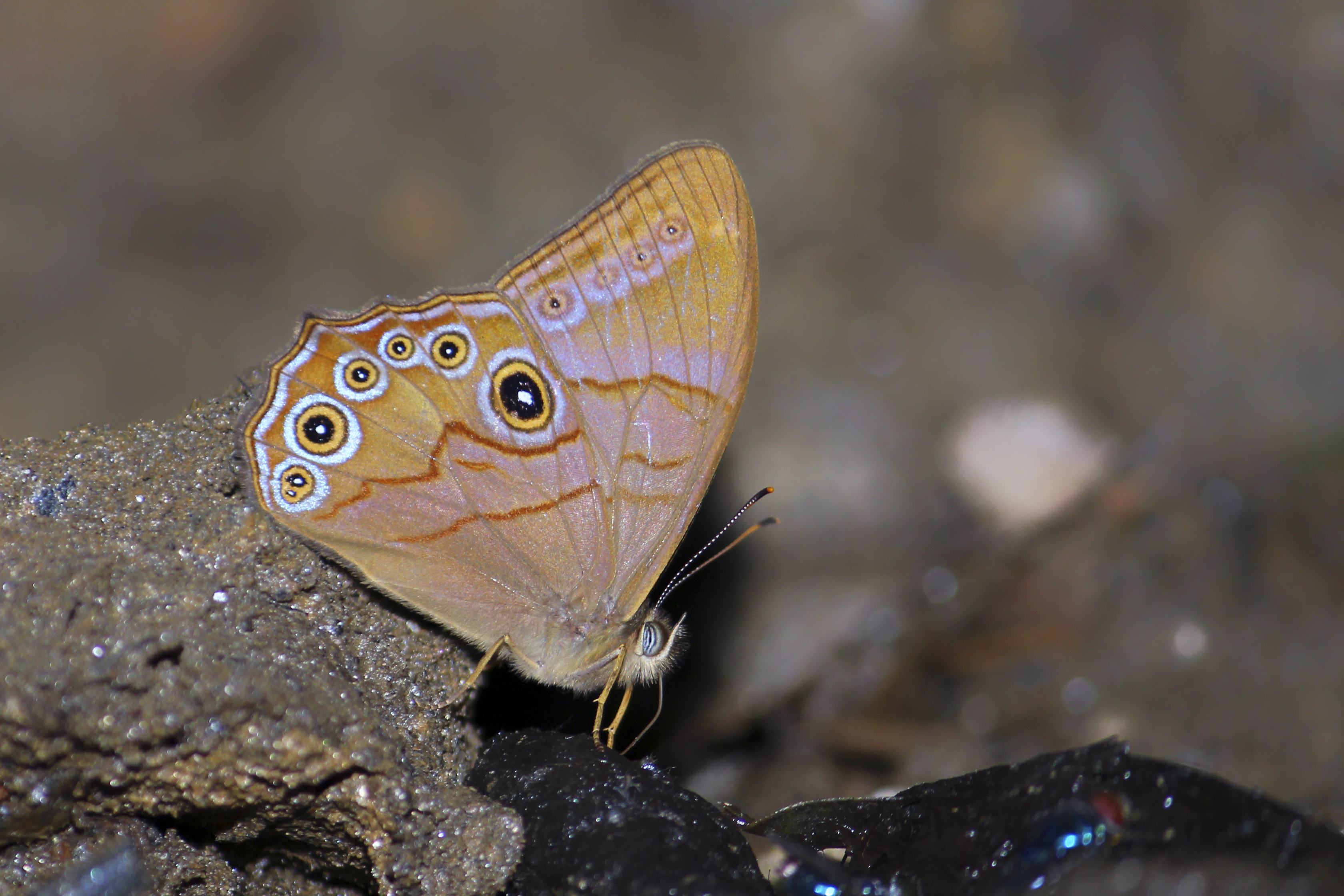 Close wing position mud-puddling of Lethe latiaris Hewitson, 1863 – Pale Forester. This specimen belongs to sub-species Lethe latiaris latiaris Hewitson, 1863 – Himalayan Pale Forester. This species is legally protected in India under Schedule II of the Wildlife (Protection) Act, 1972.